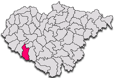 Map Salaj County Romania